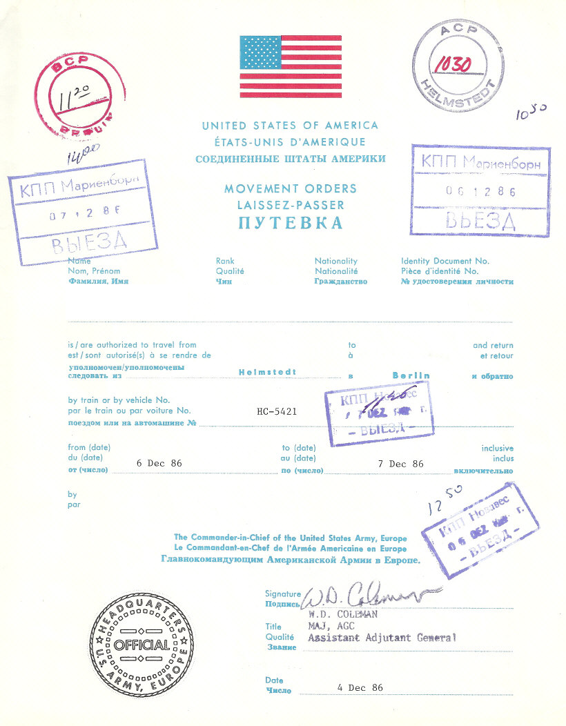 Travel orders to occupied Berlin as used by U.S. forces in the 1980's.